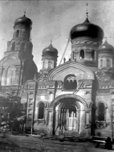 Troitska church in Opishnya, 1920